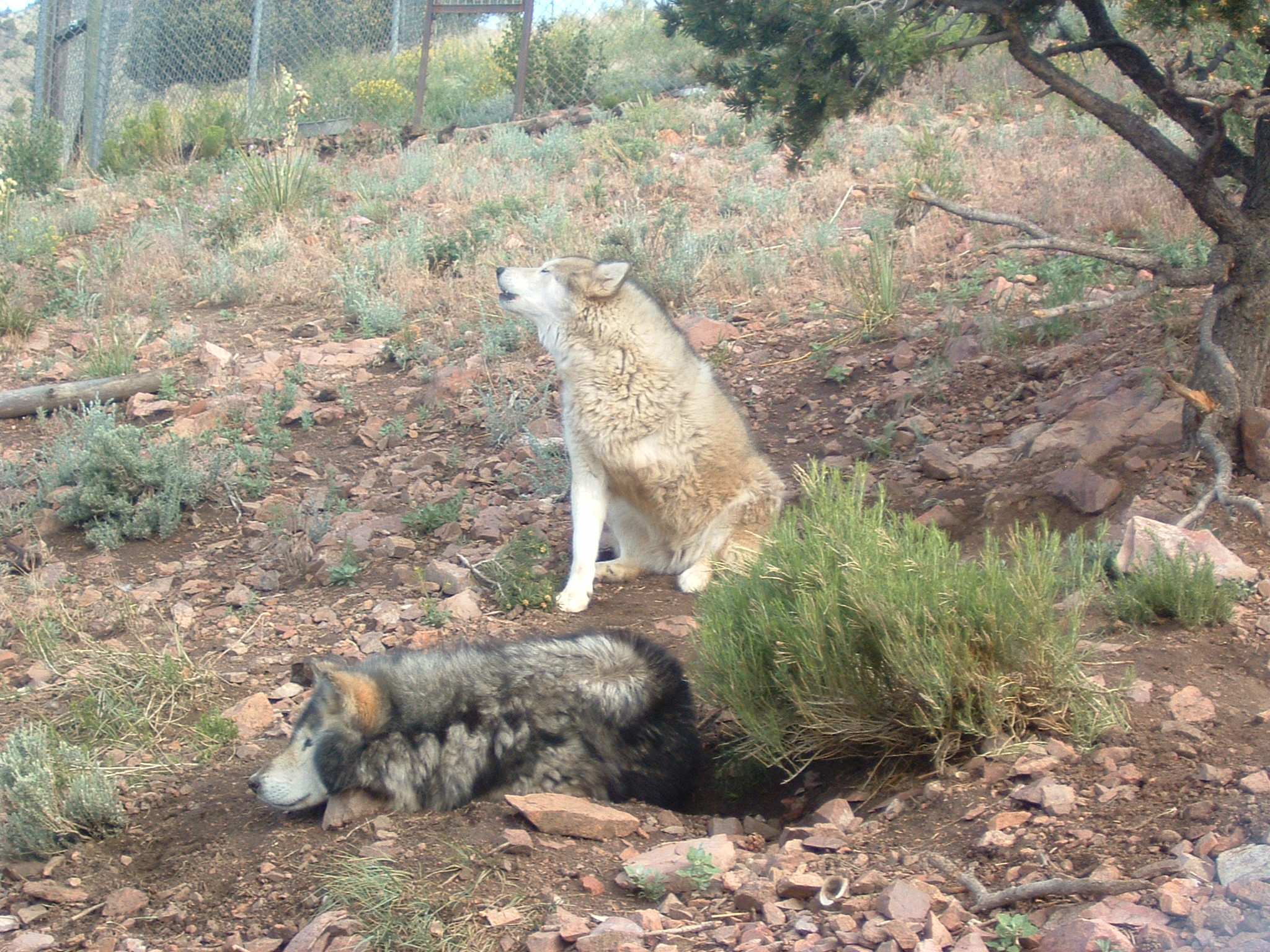 A picture of two wolf-dog crosses housed at Mission: Wolf. Aurora is the three-legged white one, and is part Husky, and Rogue is the larger black one lying down, who is half malamute.